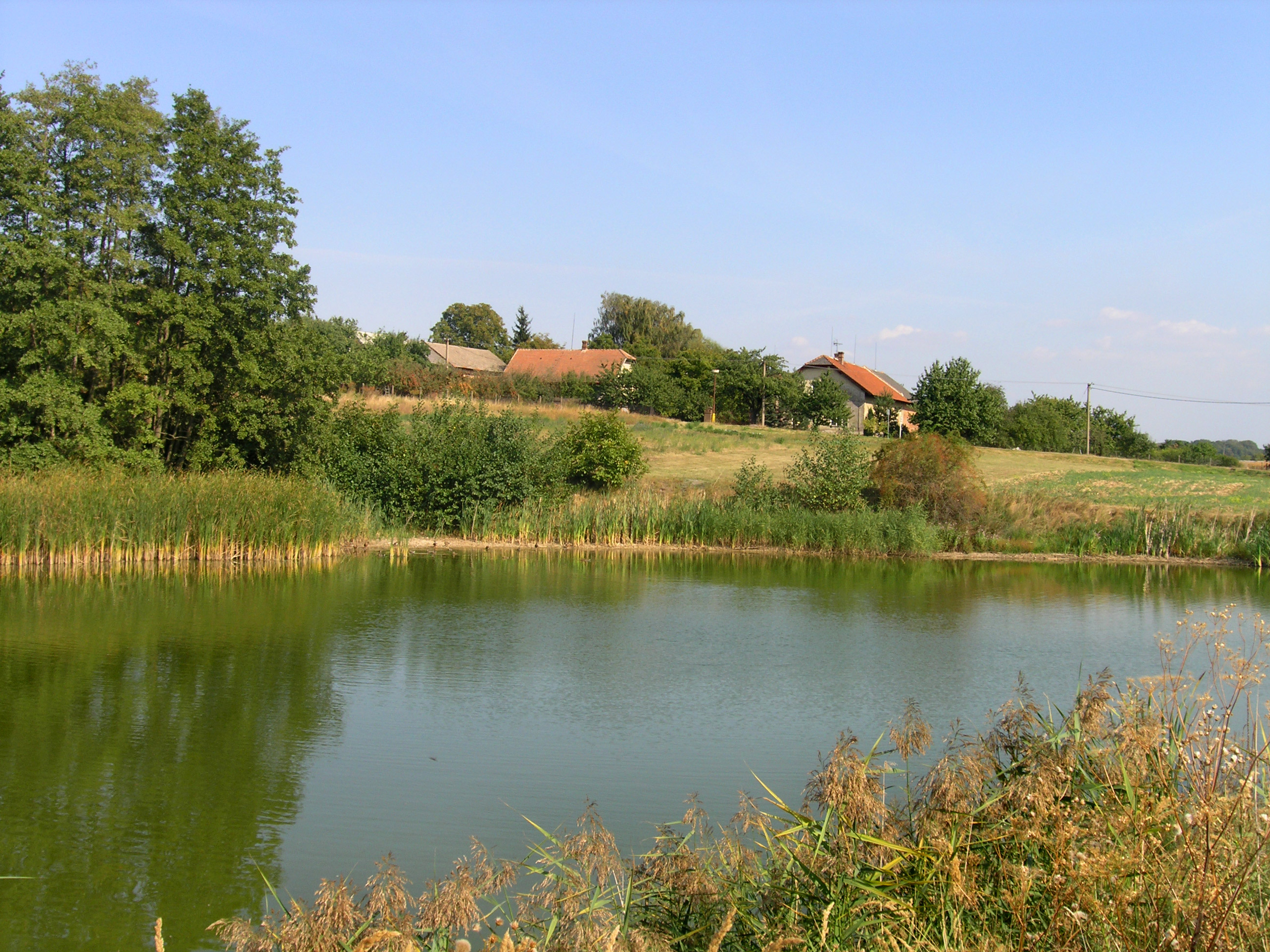 Pond in Hvozdnice, Czech Republic